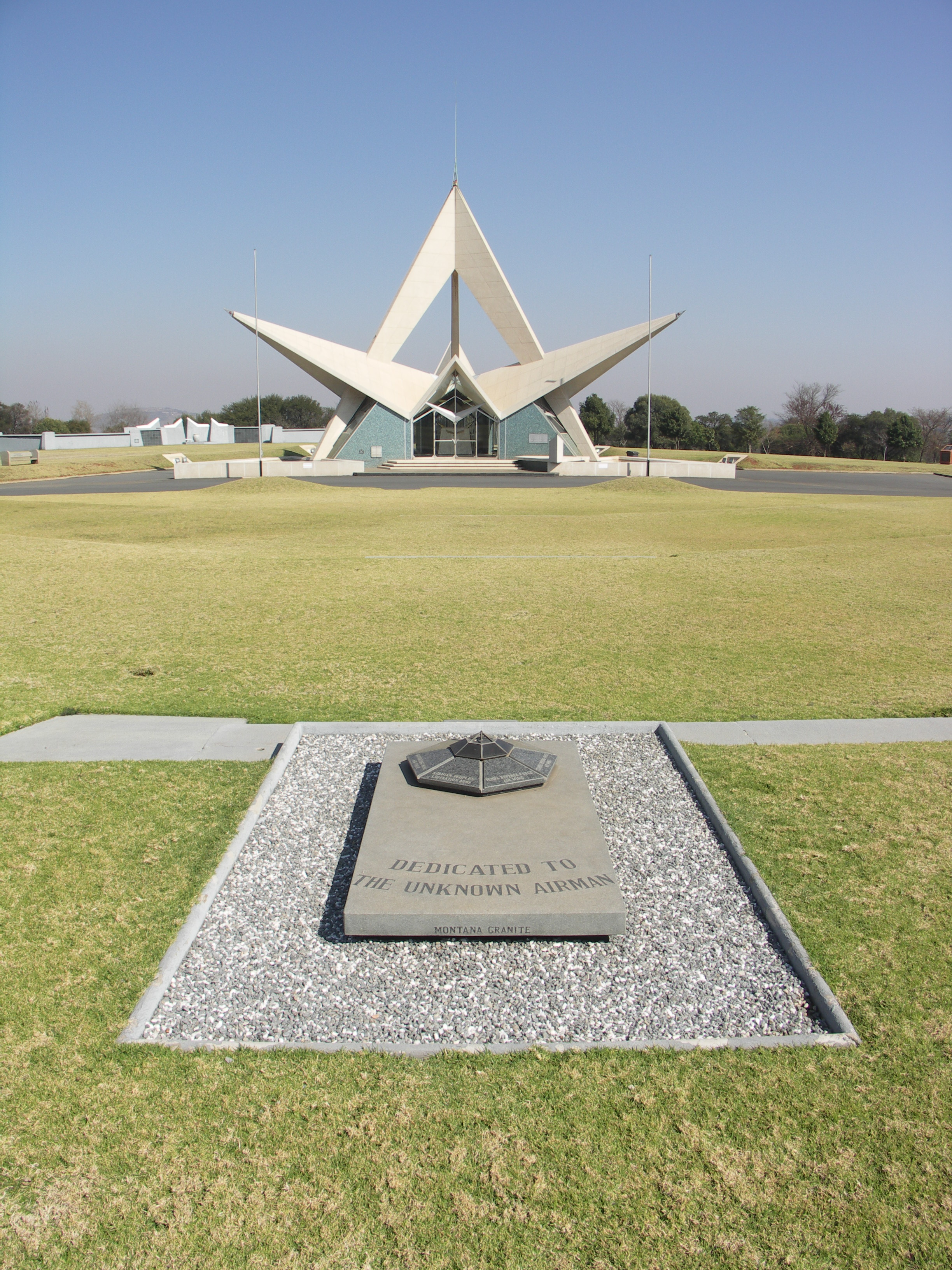 South African Air Force Memorial, Swartkop, Tshwane